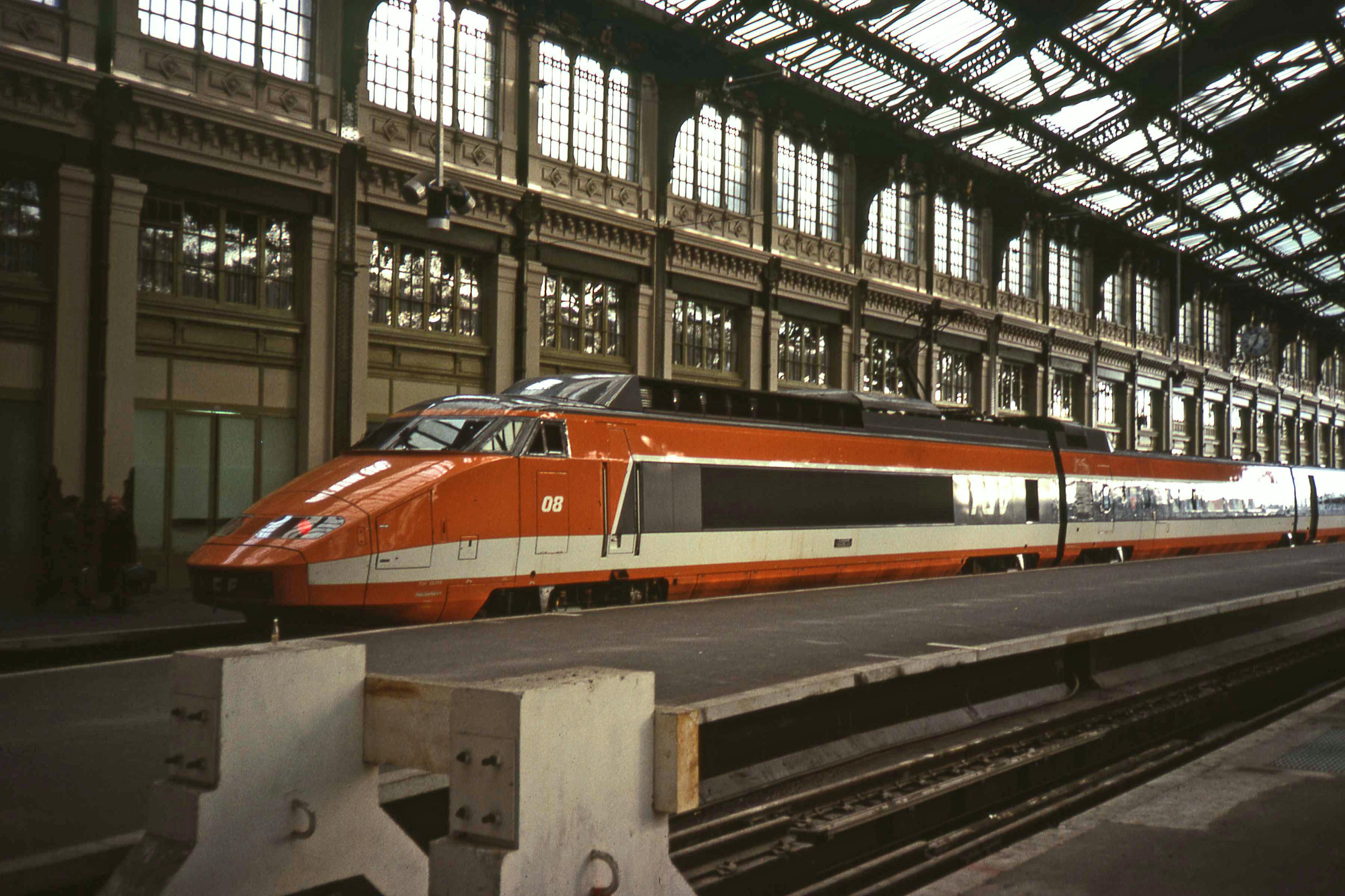 Orange TGV in Gare de Lyon in the starting period 1982.